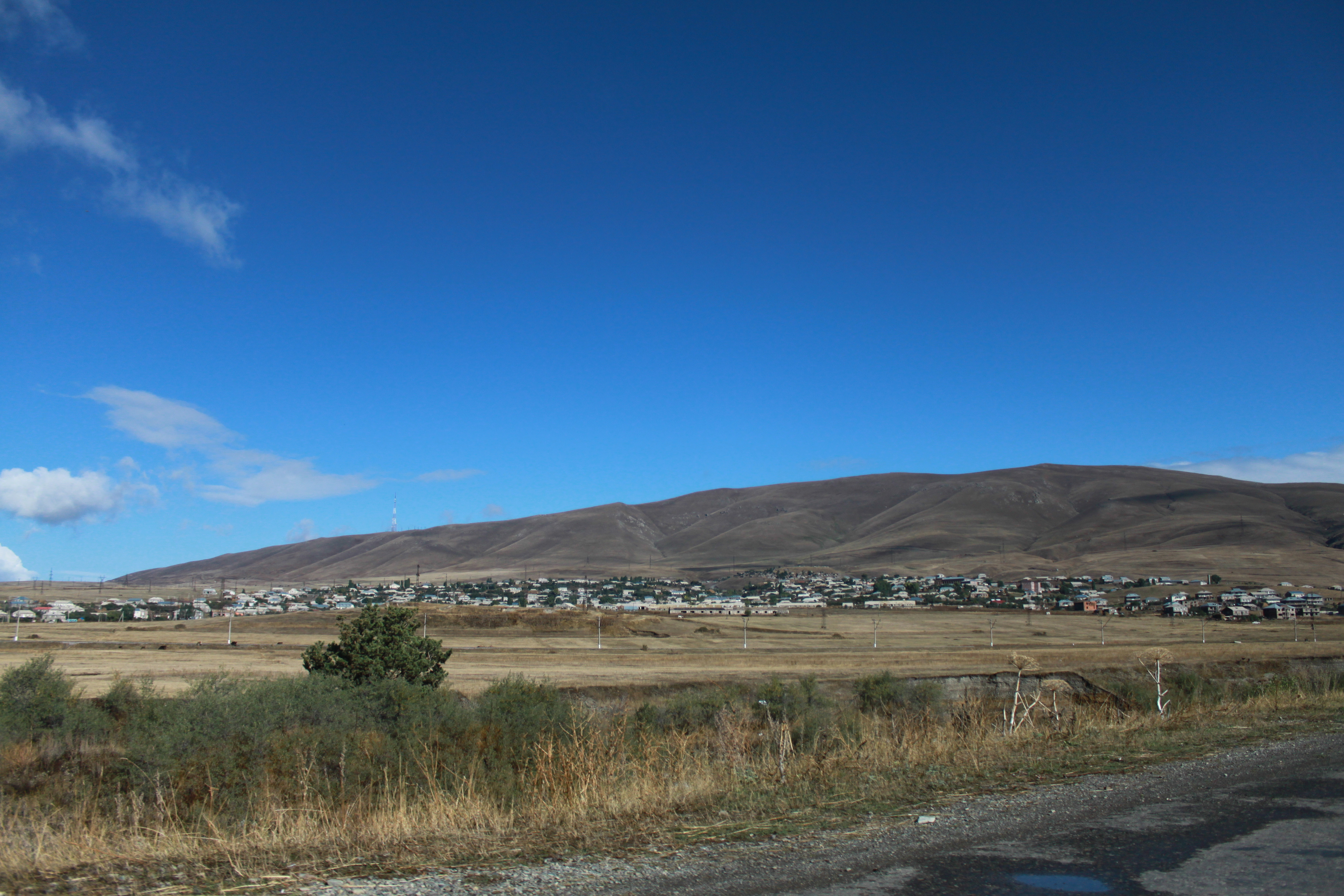 A view of Tsovagyugh town on the shores of Lake Sevan in Armenia.